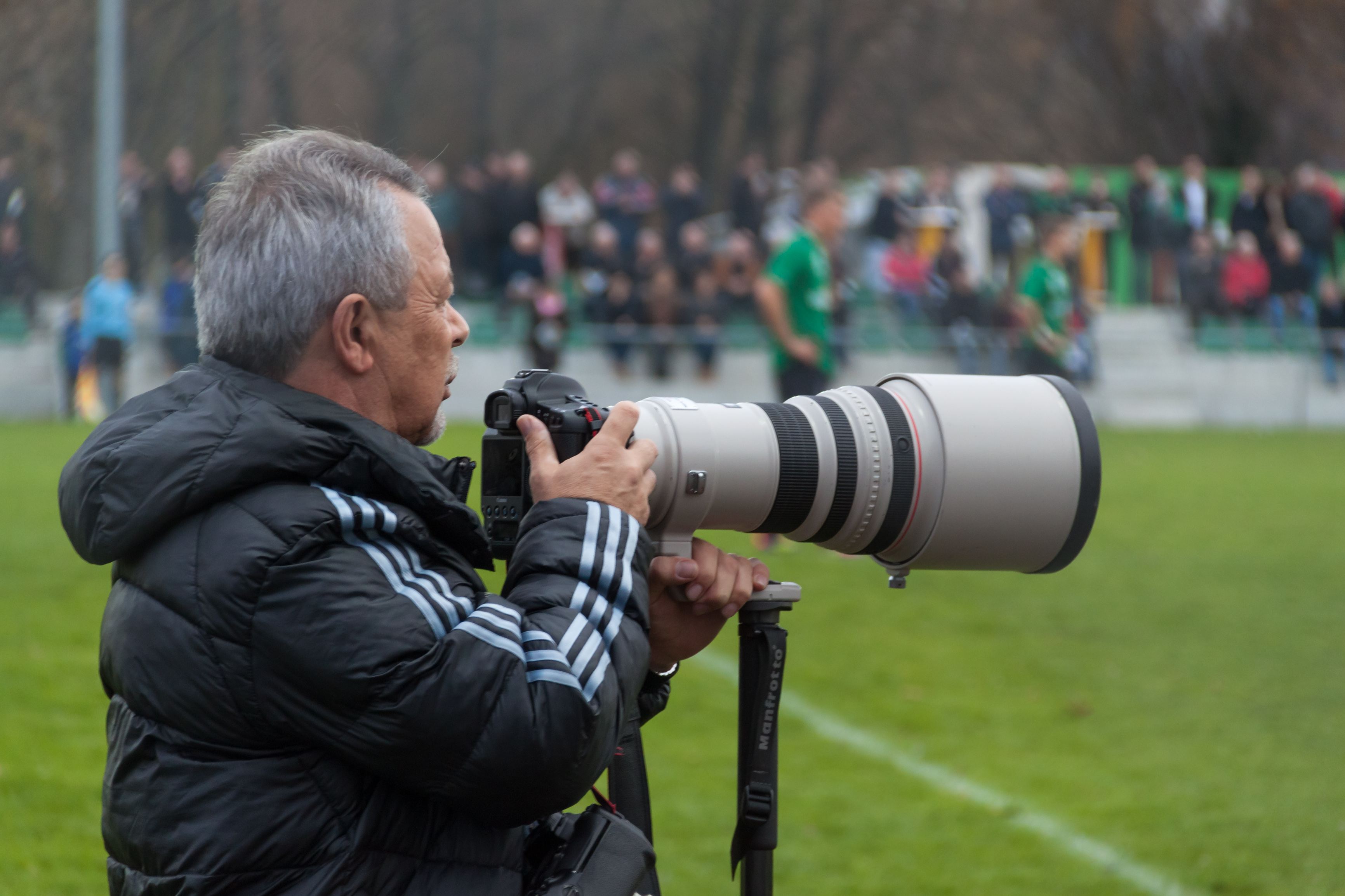 A professional photographer taking shorts of football players with a Canon autofocus telephoto lens. The photo was taken in Kreuzlingen (Switzerland), just 100m away from the border with Germany.